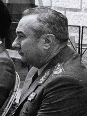 Inventarski broj:1979 702 0015